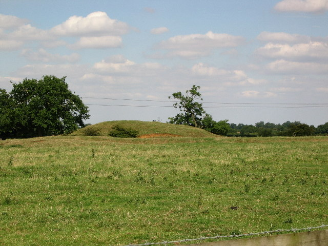 Motte and bailey at Alstoe Farm, Rutland